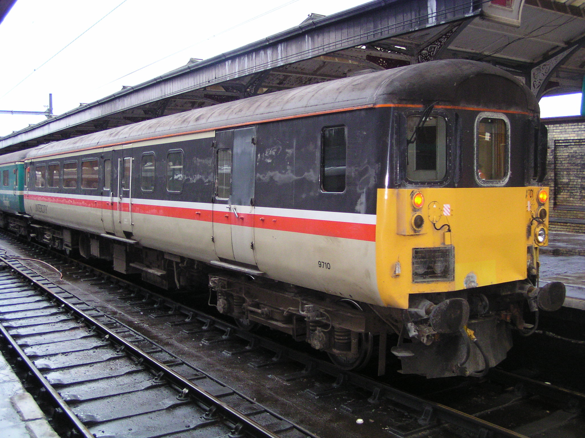 BR Mk. 2F DBSO 9710 at Norwich station on 31st January 2004. This was the final DBSO to retain InterCity livery. Image by Phil Scott (Our Phellap)